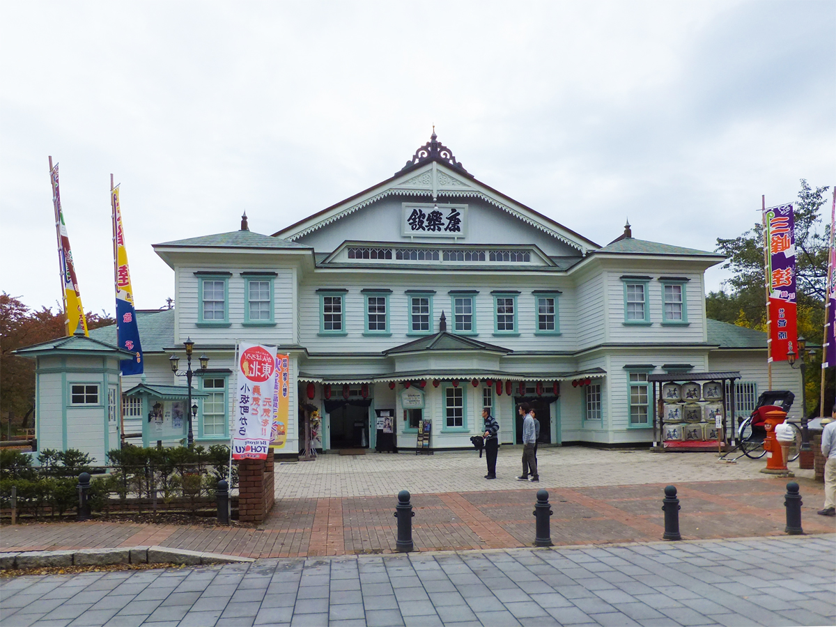 Kōrakukan is the oldest wooden theater in Japan in existence, where is in Kosaka town, Akita, Japan.